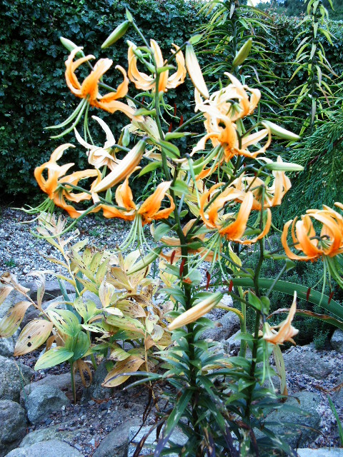 Lilium rosthornii